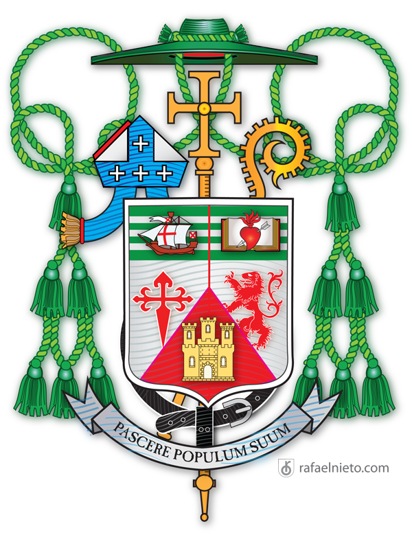 Coat of Arms Bishop Alphonse Gallegos, OAR. heraldry. Ecclesiastical Heraldry. Heráldica. Heráldica Eclesiástica. Escudo de Armas Obispo. Augustinian Recollects. Agustinos Recoletos. Rafael Nieto